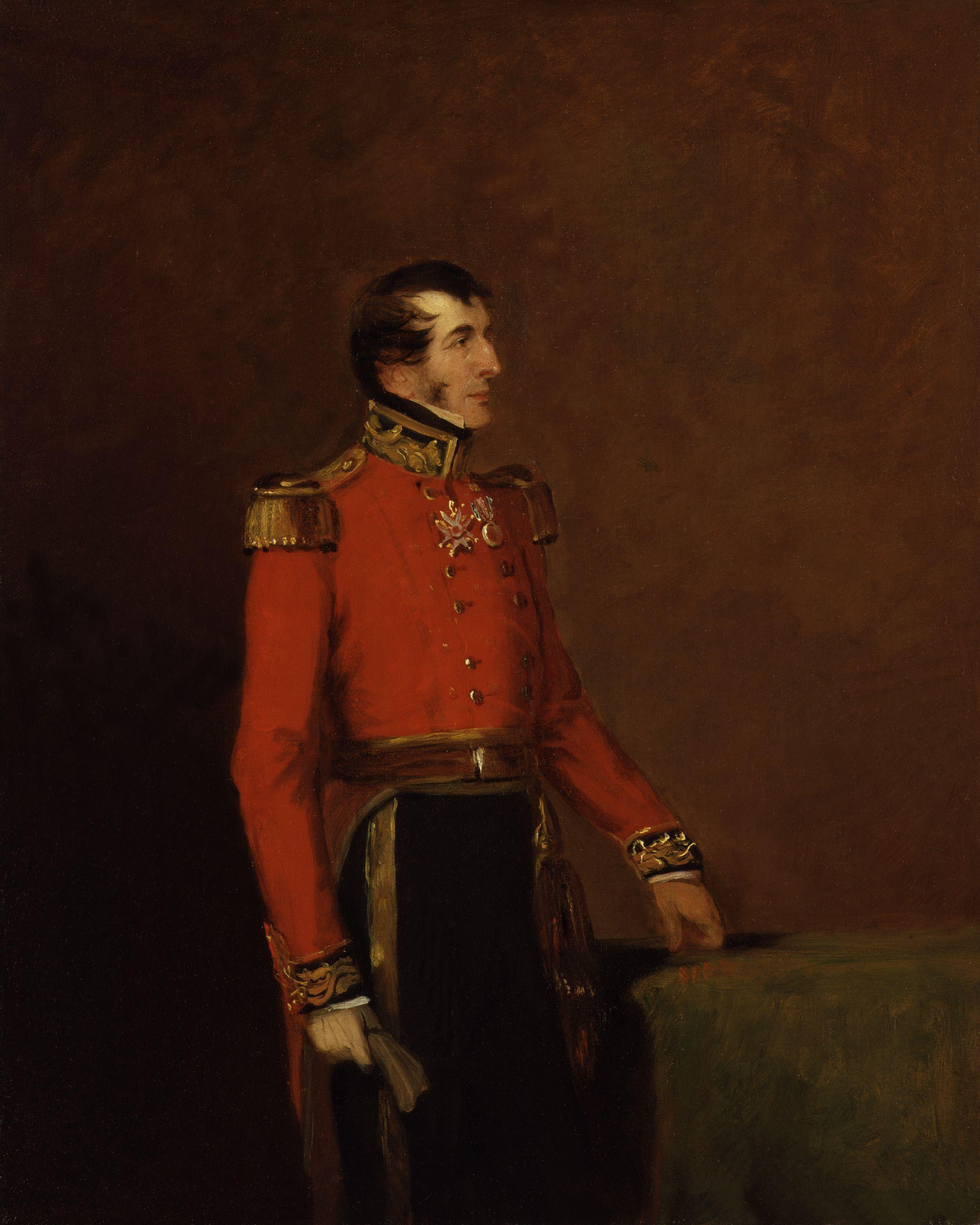 All images in this batch have been confirmed as author died before 1939 according to the official death date listed by the NPG.